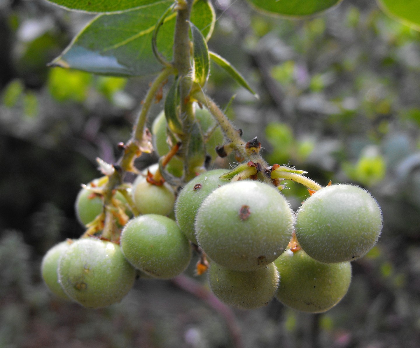 Arctostaphylos catalinae (Santa Catalina Island Manzanita), fruit. Cultivated at Rancho Santa Ana Botanic Garden in Claremont, California, where identified by sign.